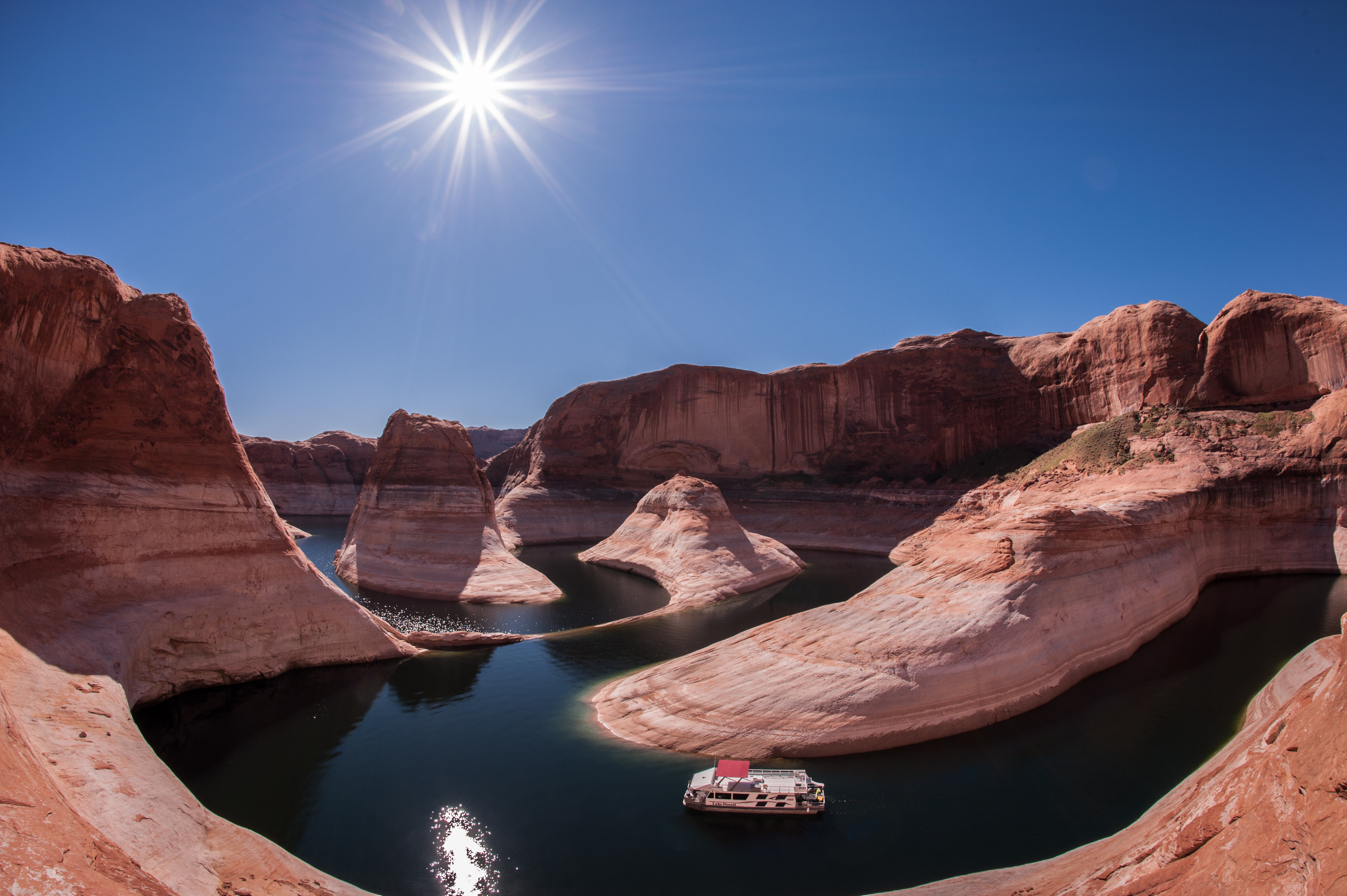 A houseboat sits in the green water and high orange cliffs of Lake Powell. The dramatic curves of Reflection Canyon show the path the river once took before Lake Powell.